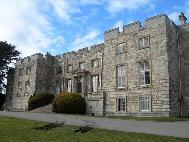 Hazlewood Castle Hotel and wedding centre. The former home of the Vavasour family